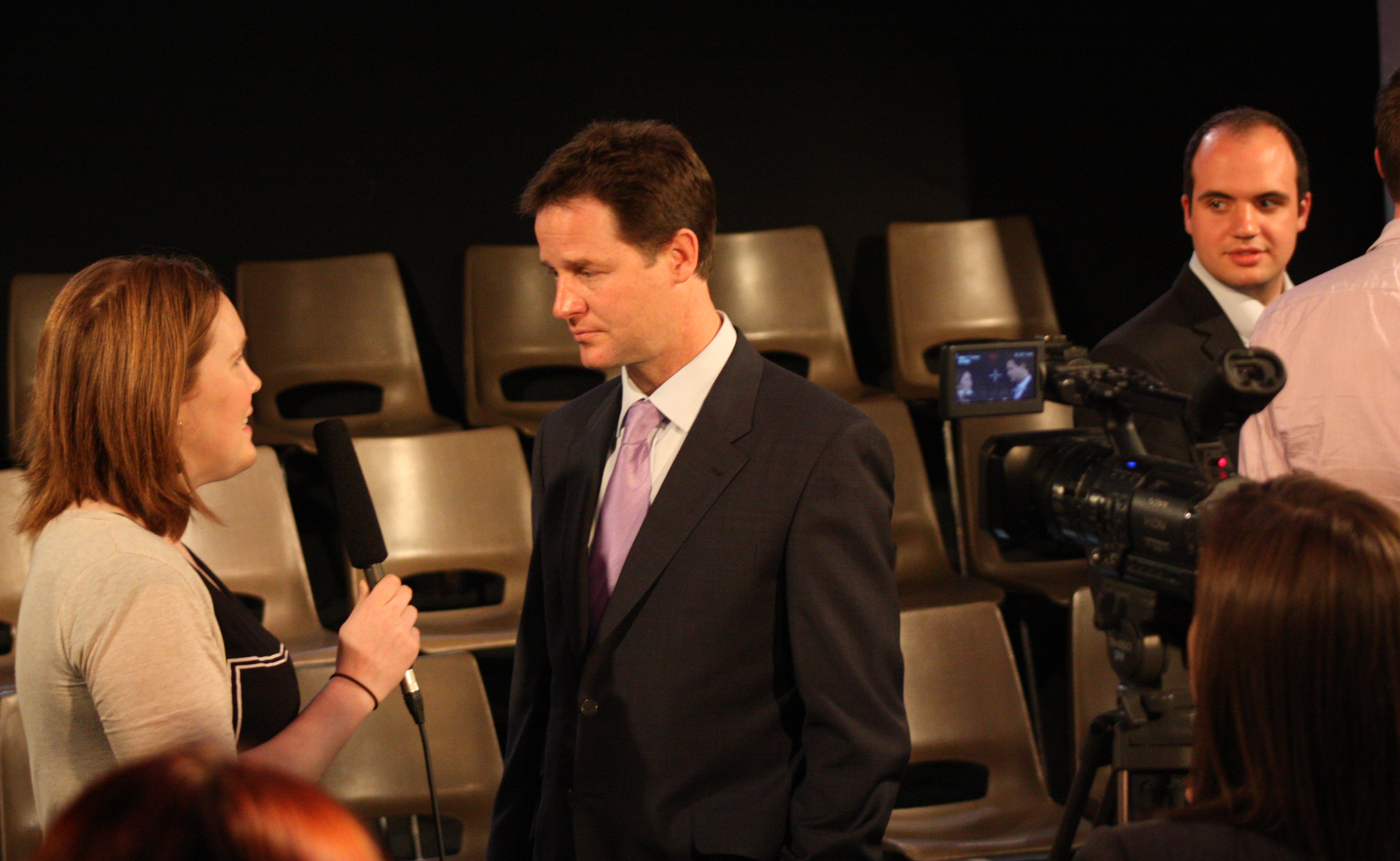 Nick Clegg at Cardiff University Students' Union conducting an interview with student media society CUTV. Captured on 19th April 2010.